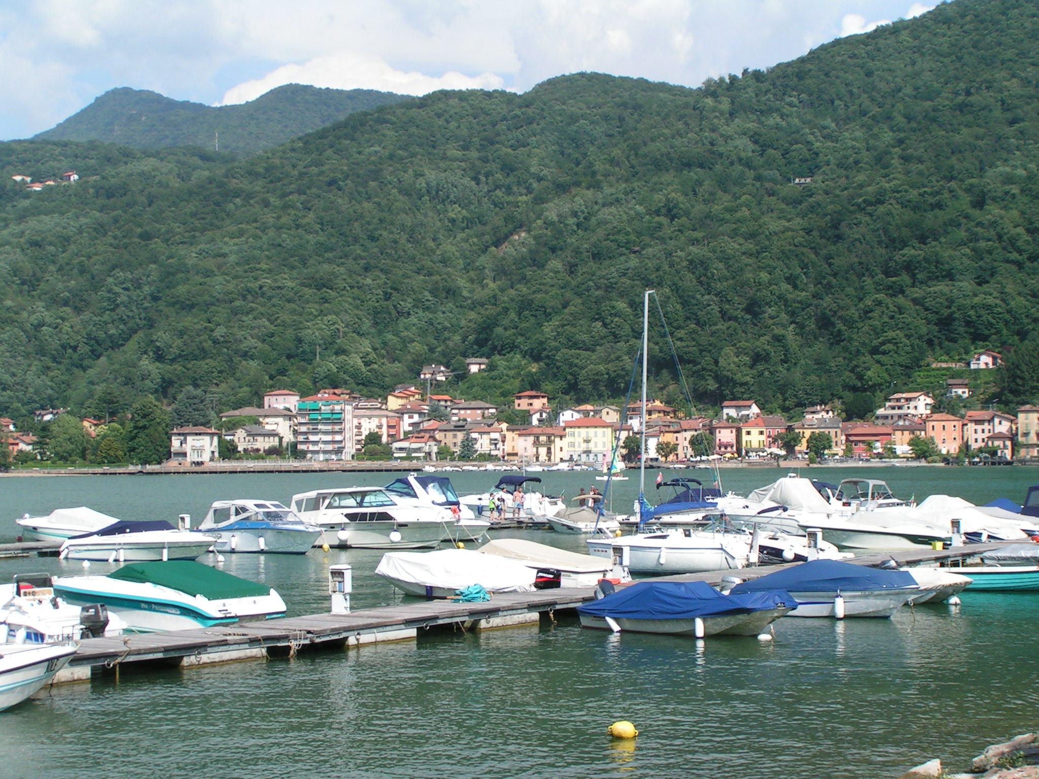 Porto Ceresio at Lake Lugano